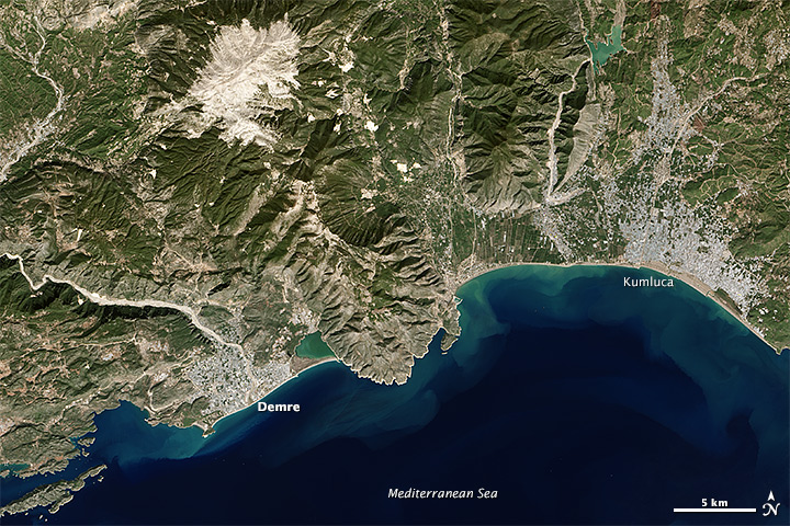 The Operational Land Imager on the Landsat 8 satellite acquired this image of the southwest Turkish coast on October 20, 2013. The river Demre cuts through the city, while the Taurus Mountains stand to the north and east. The town of Kumluca meets the coast east of the mountains.